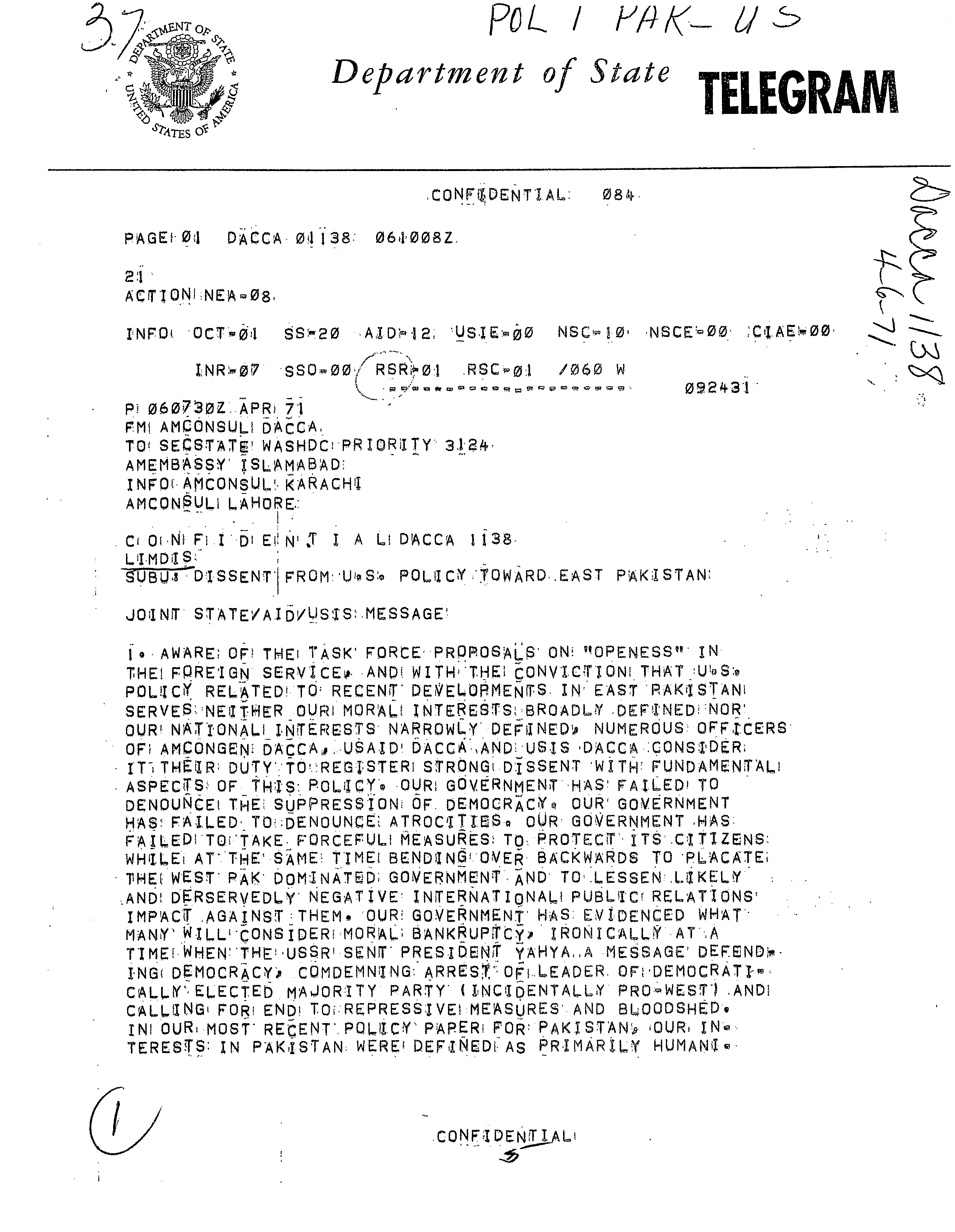 The Blood telegram, authored April 6, 1971 by Archer K. Blood.